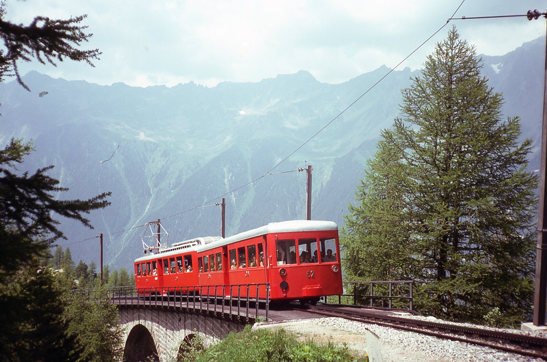 Photo: Trams aux Fils.